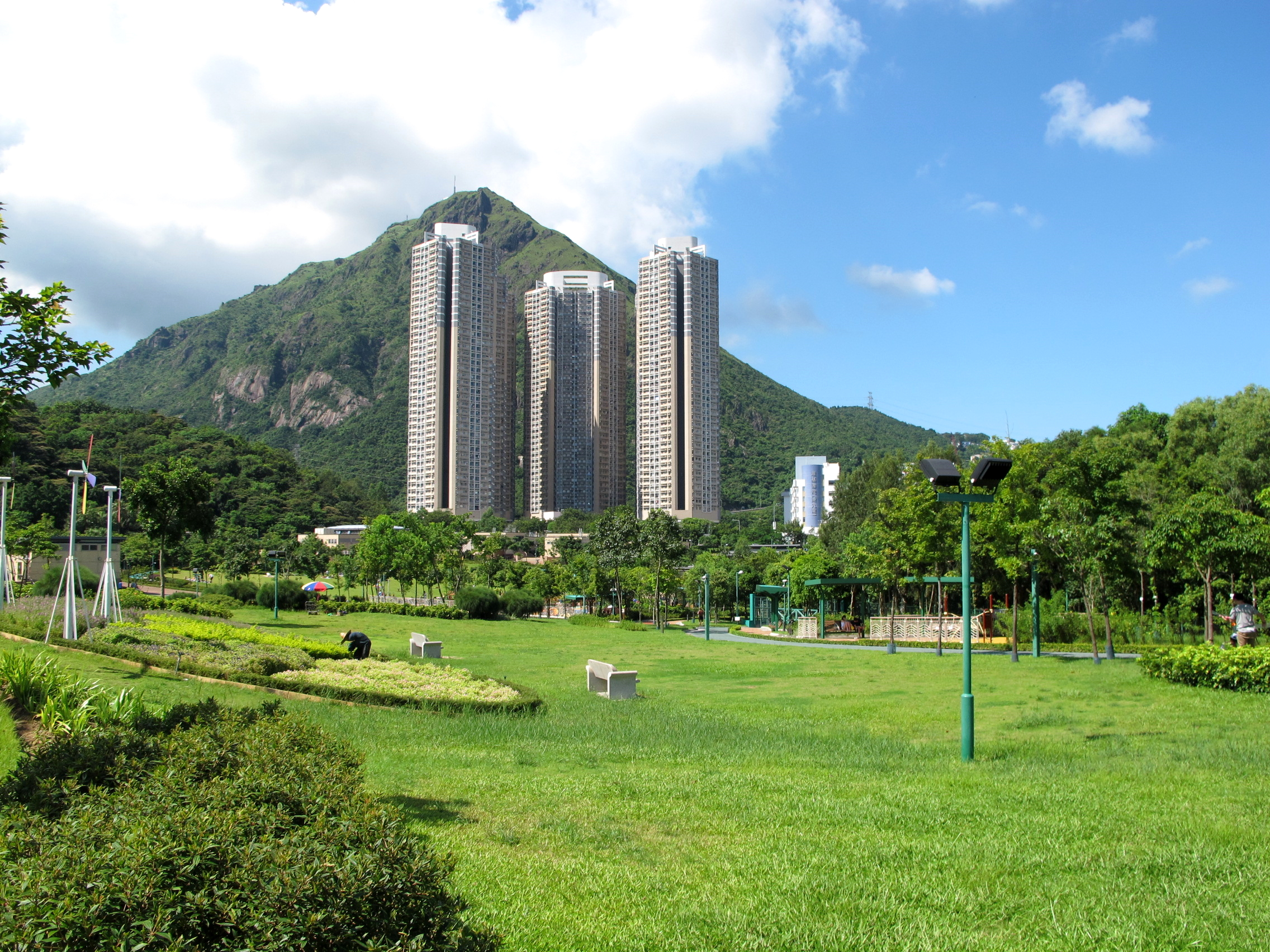 Jordan Valley Park